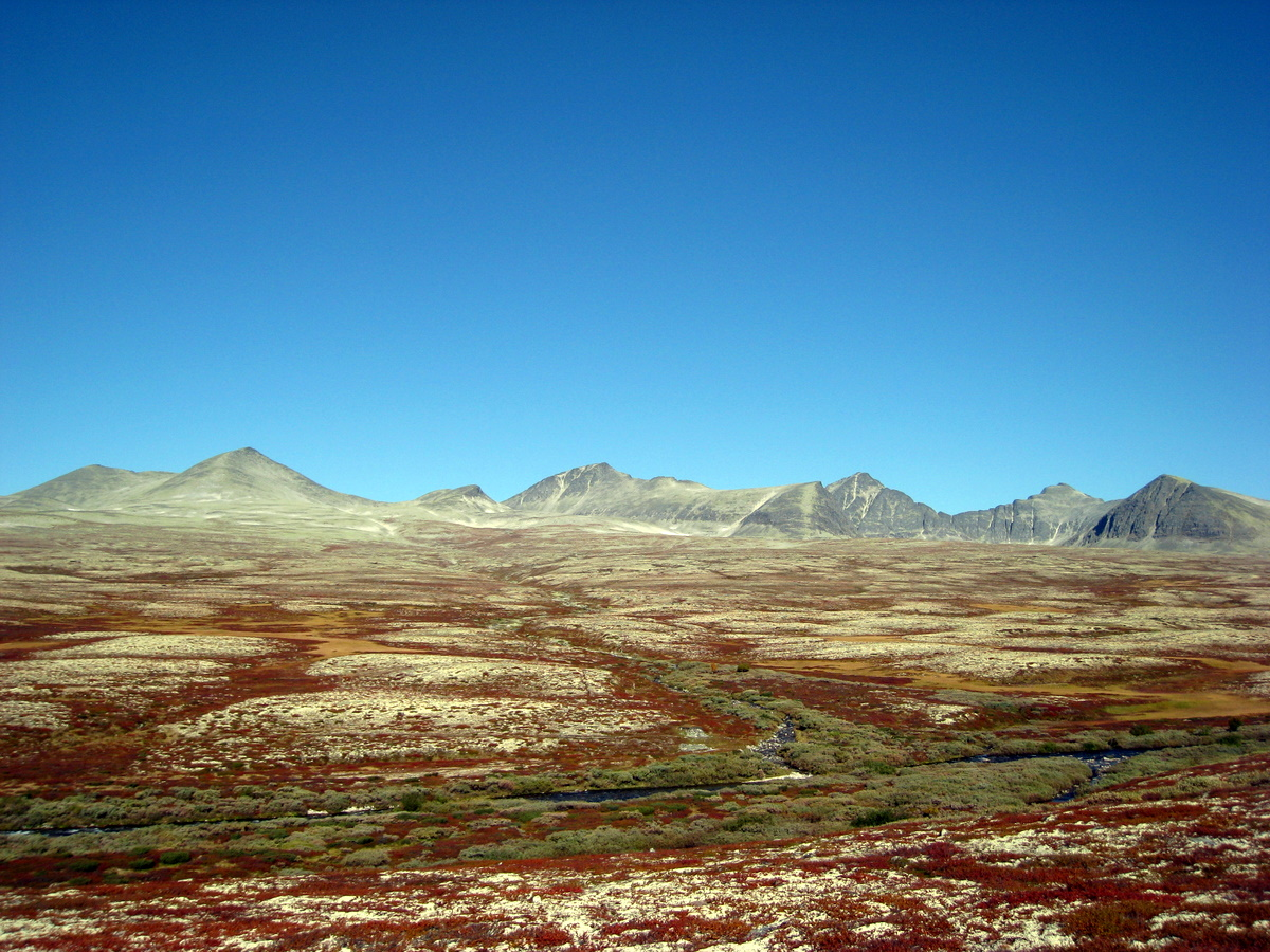 Rondane as seen from south-east by the river Store Ula